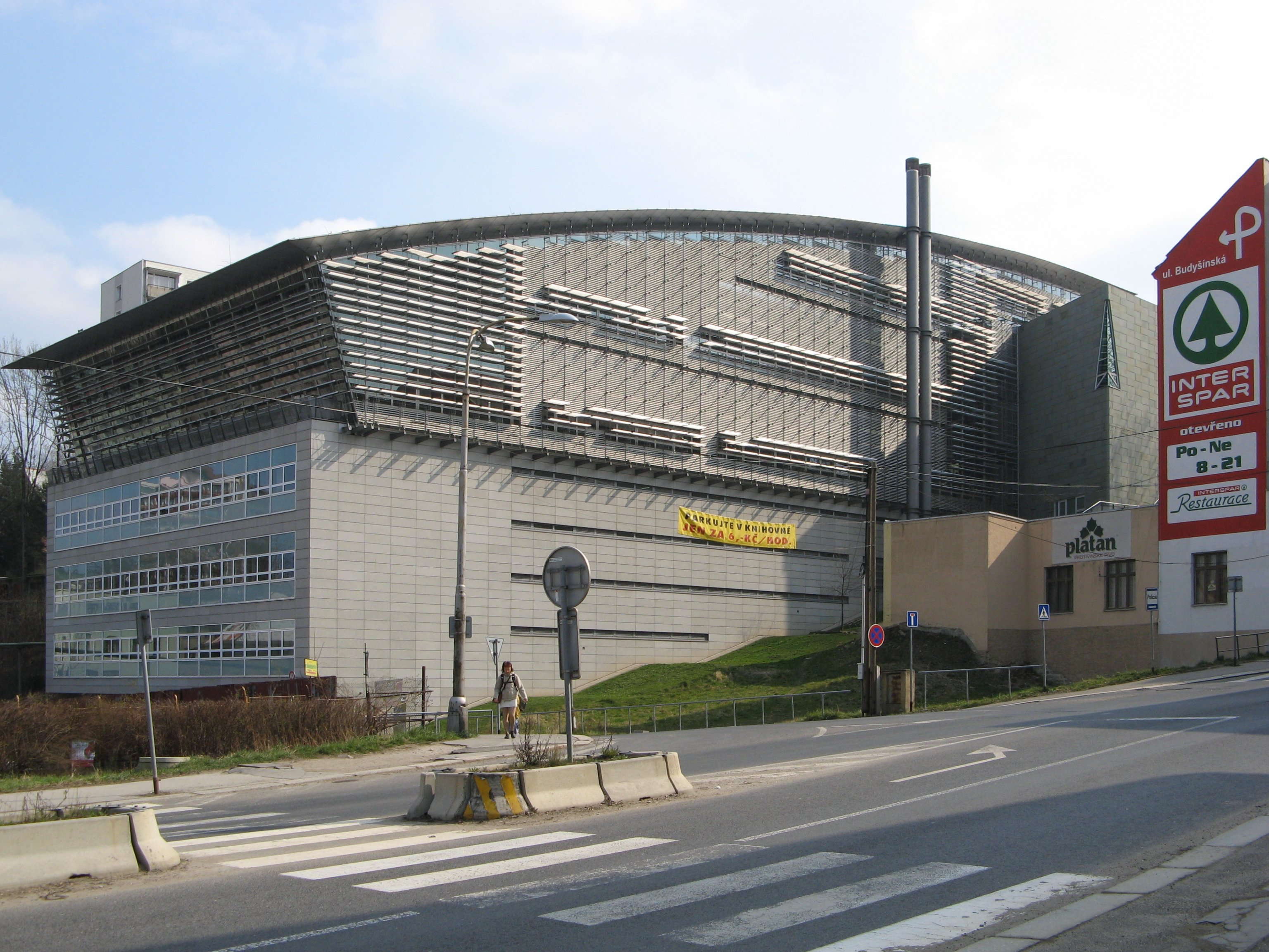 Research Library in Liberec, Czech Republic, Krajská vědecká knihovna v Liberci